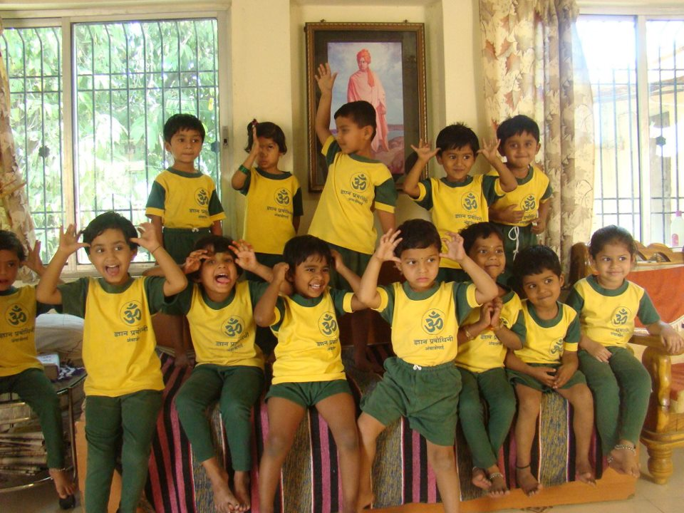 'Shishuvihar' at Jnana Prabodhini Ambajogai